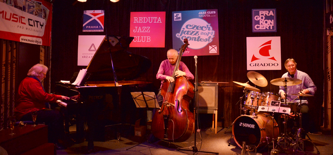 Jazz Trio WUH, Skip Wilkins (p), František Uhlíř (b), Jaromír Helešic (d), 2014, Prague